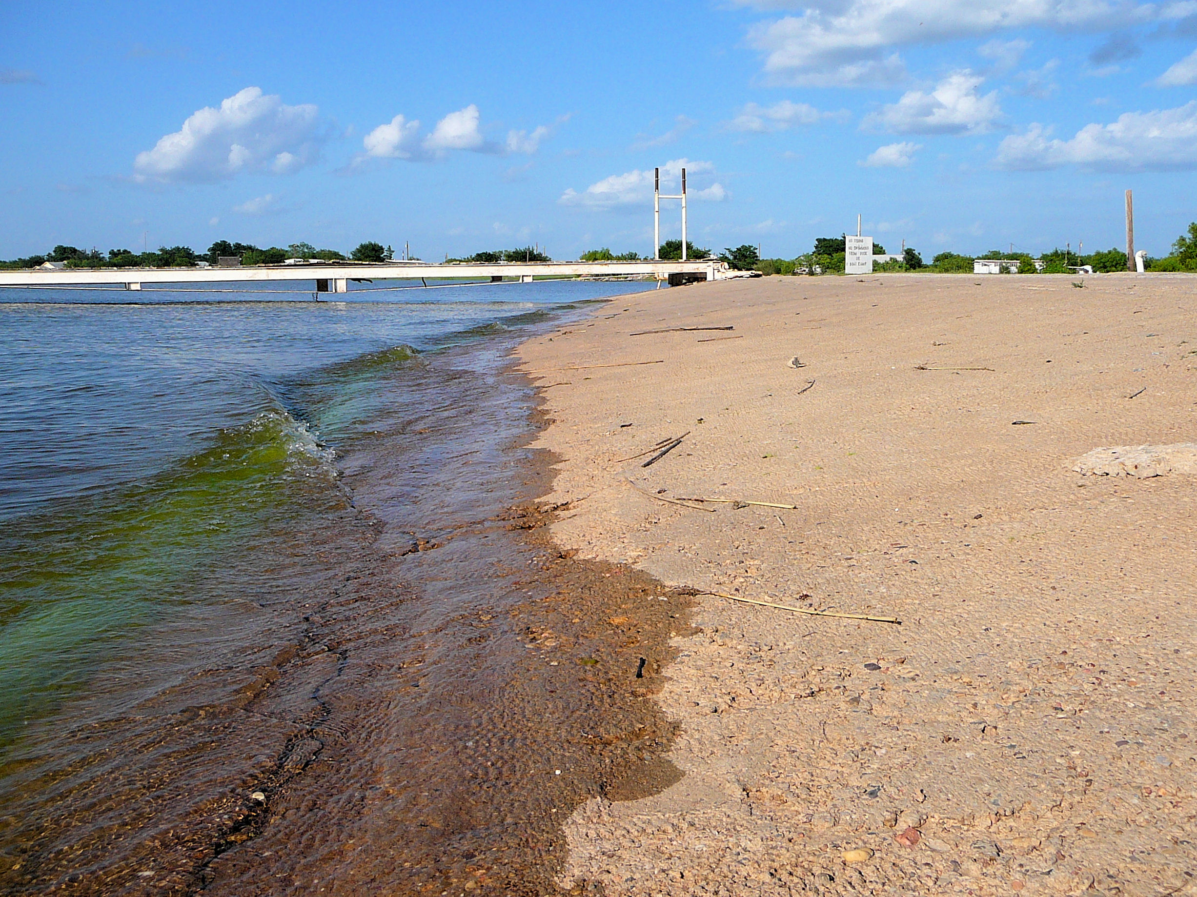 Lake Stamford, Haskell County, Texas, boat ramp looking east, at capacity